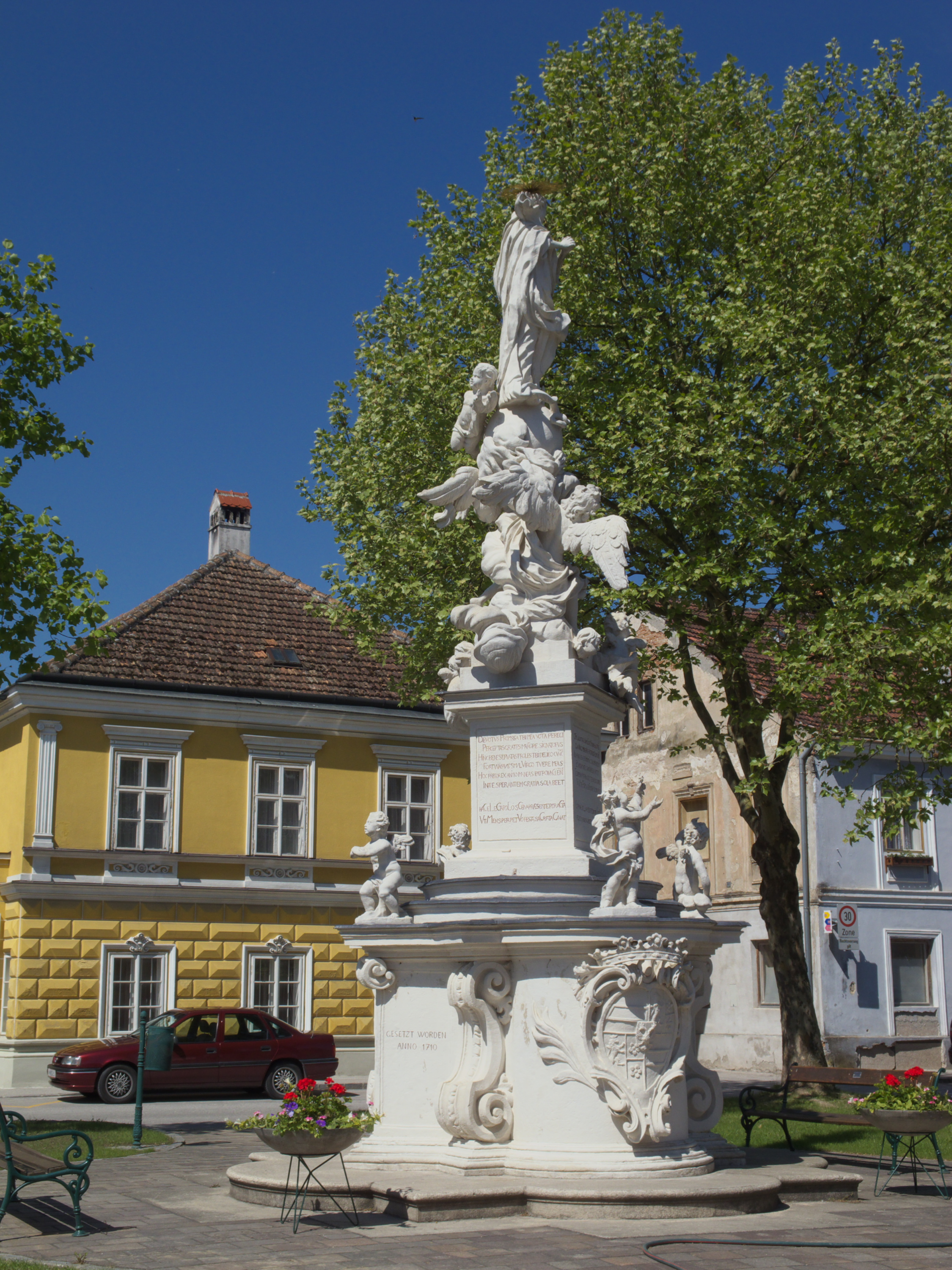 Maria Column on the main square of Wallsee. (18th century)